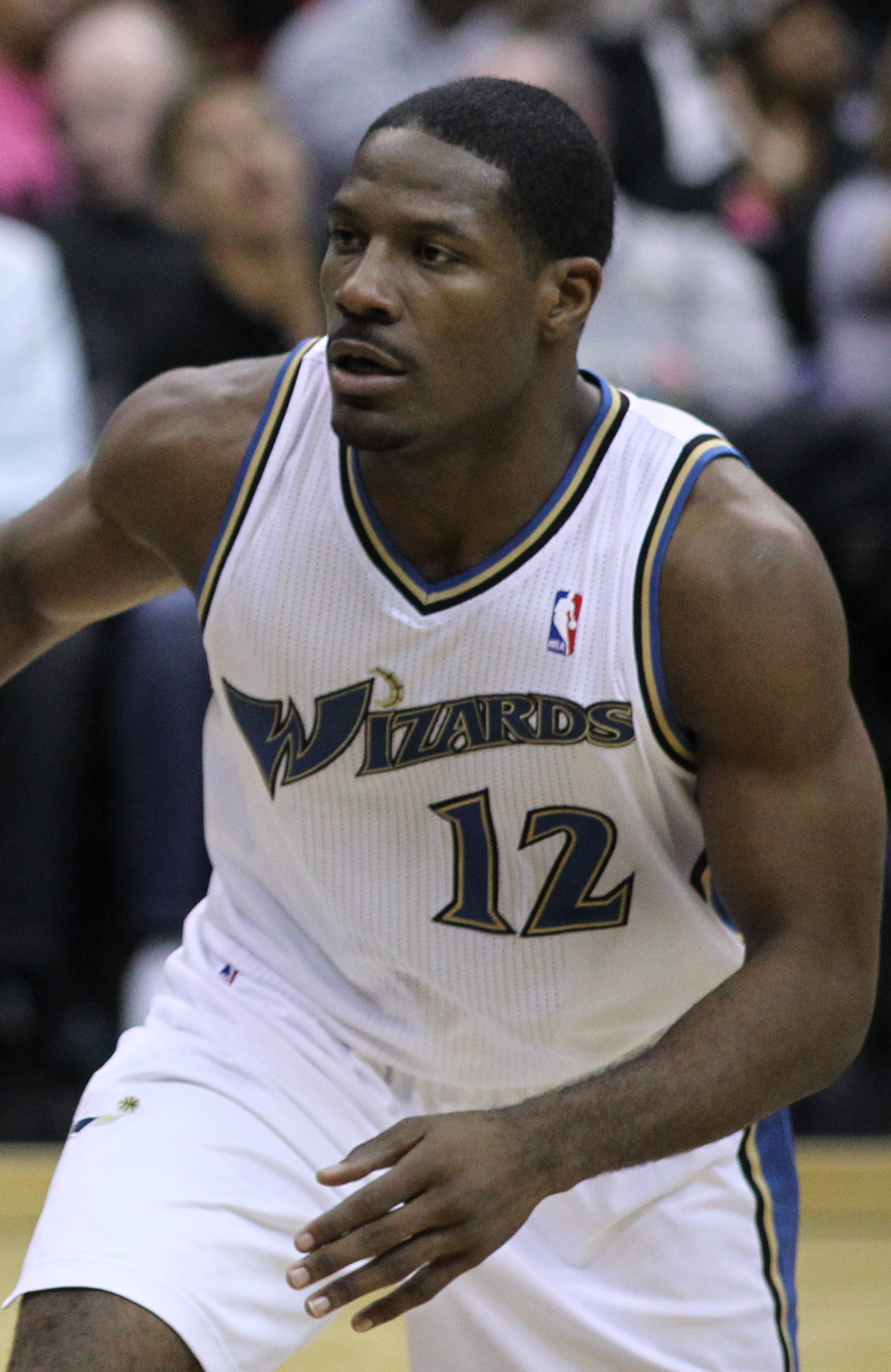 Wizards v/s Heat 03/30/11